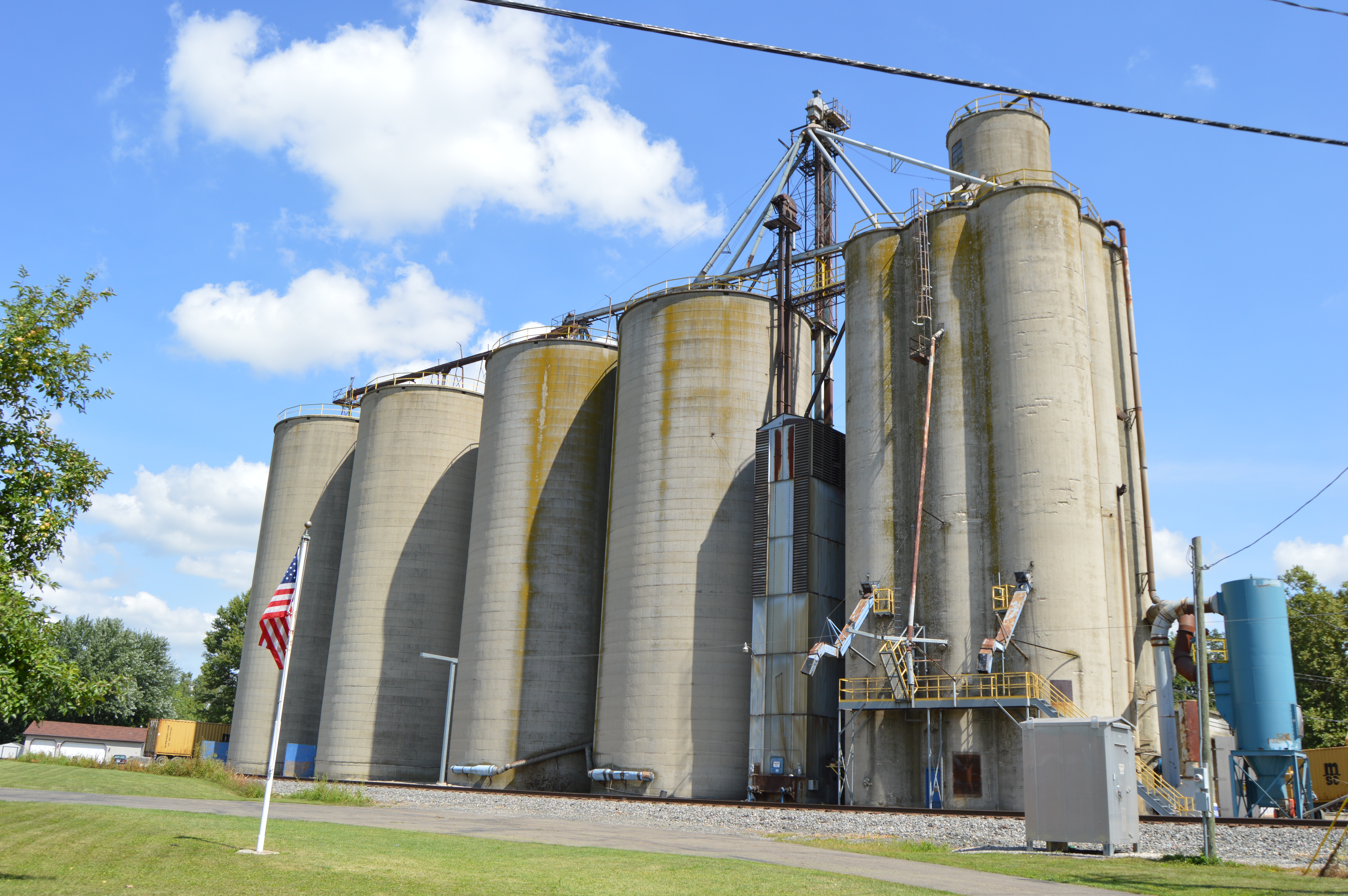 View from the south of the Morral grain elevator, located at 116 E. Neff Street (State Route 231) in Morral, Ohio, United States.